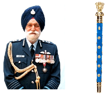 Marshal of IAF Arjan Singh pic